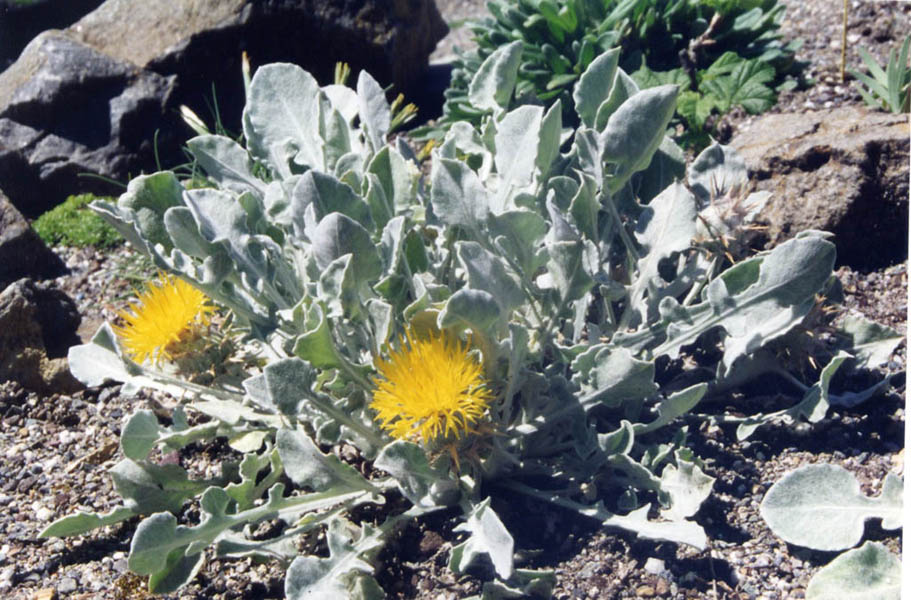 Centaurea chrysantha